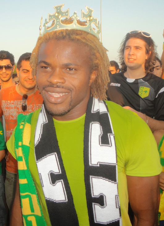 Sunny Kingsley arrival. Larnaca Airport (Cyprus)